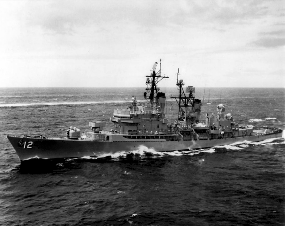 The U.S. Navy guided missile destroyer (then "frigate") USS Dahlgren (DLG-12) underway off the coast of Oahu, Hawaii (USA), on 28 August 1967.